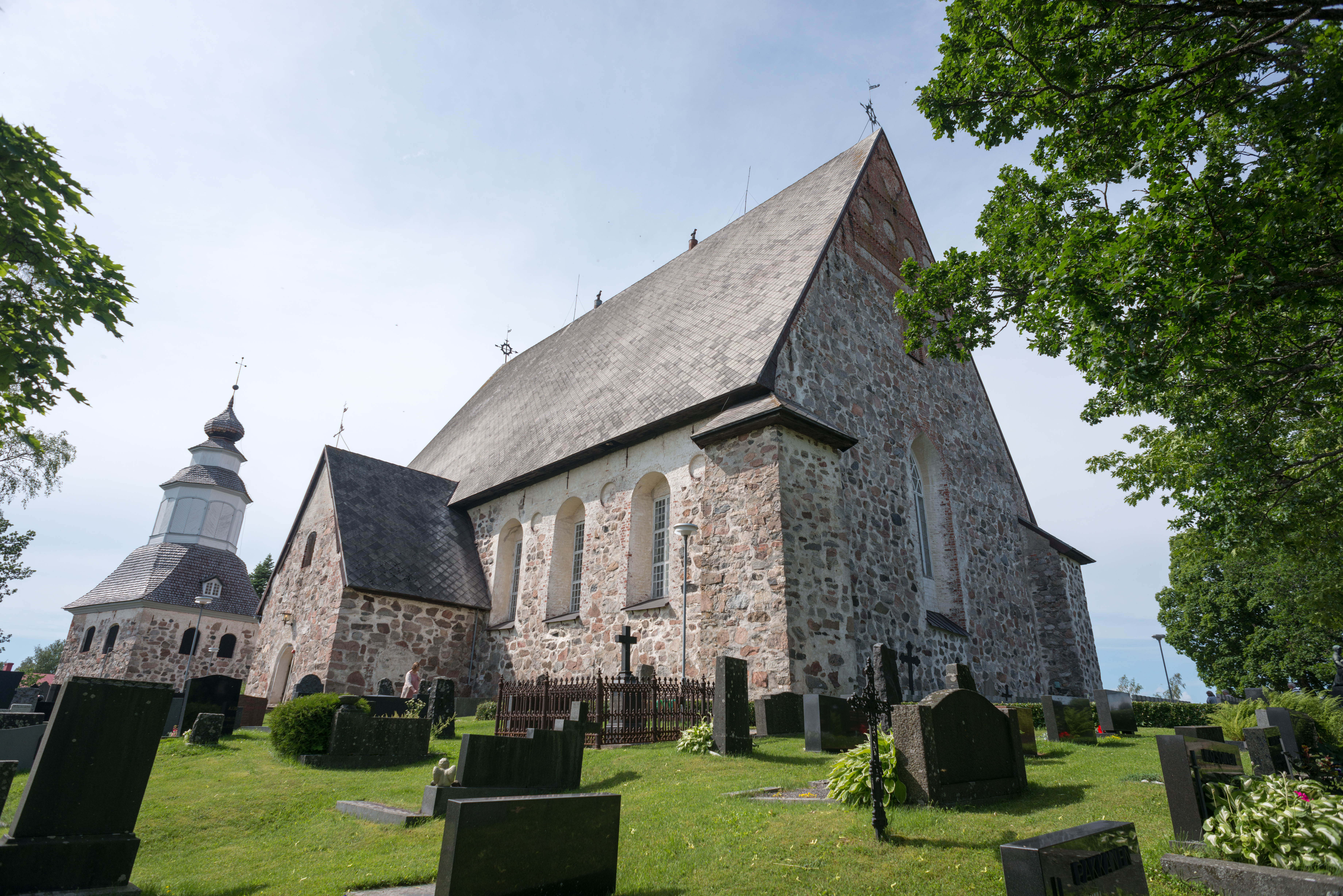 Sauvo church, Finland